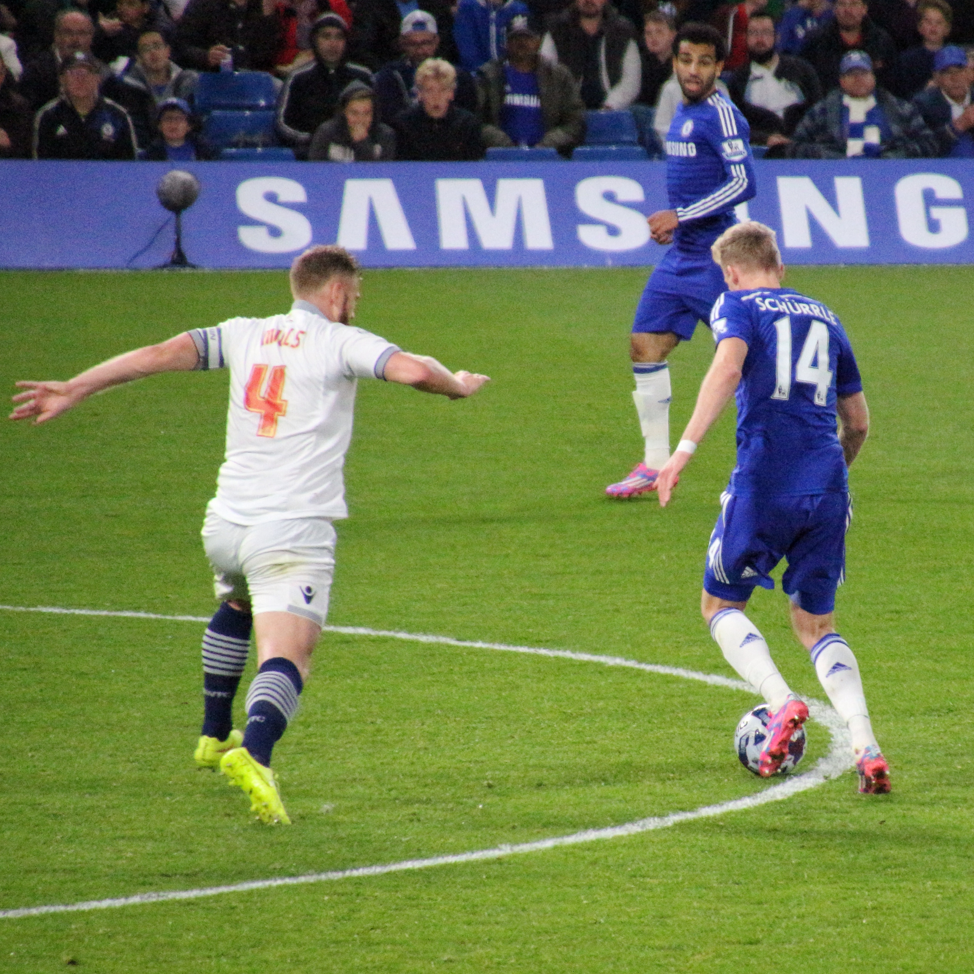 Chelsea 2 Bolton Wanderers 1 Chelsea progress to the next round of the Capital One cup